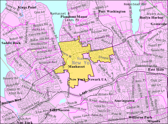 U.S. Census 2000 reference map for Manhasset